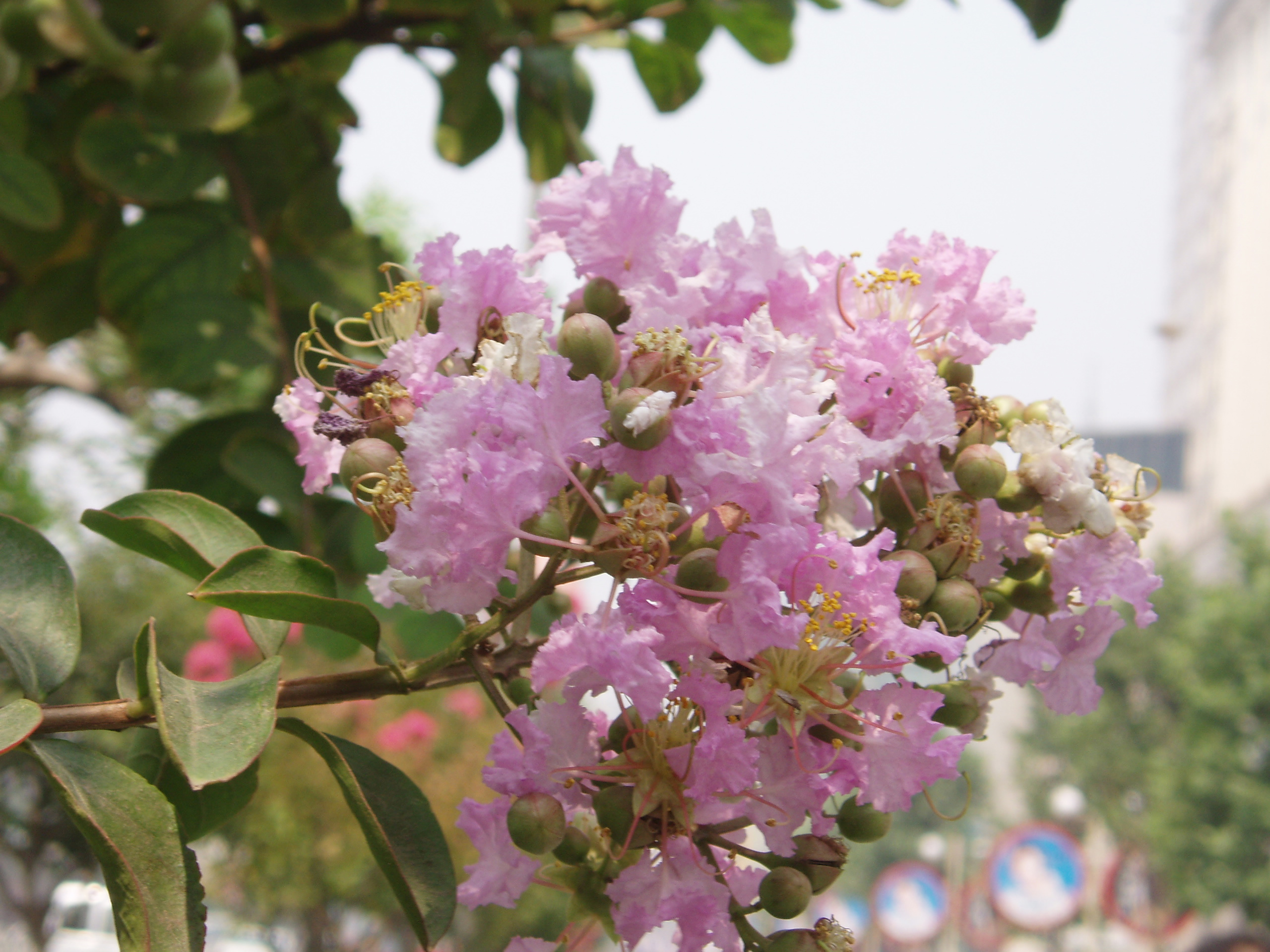 Crape myrtle flowers